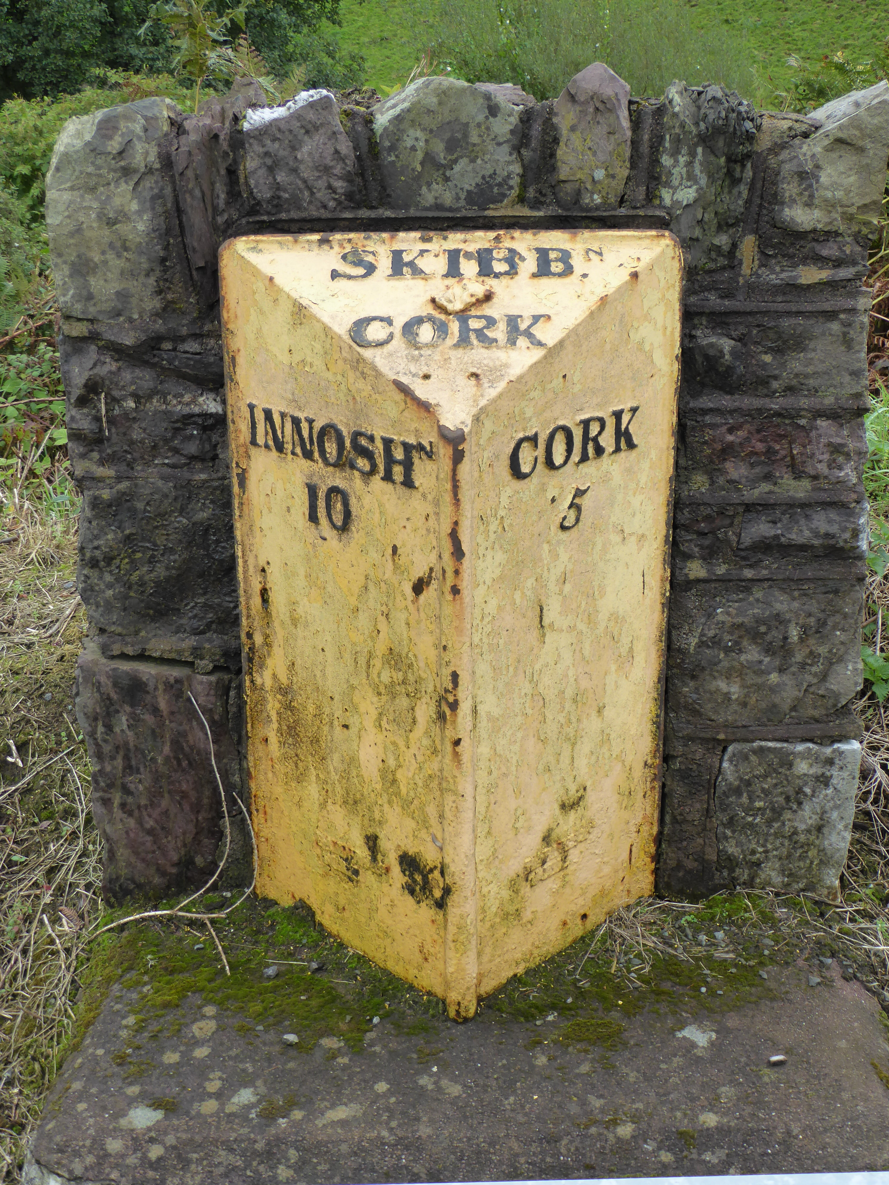 Cast iron milestone on the N71 road from Cork to Skibbereen states: "INNOSH(n) 10" on left panel, "CORK 3" on right panel and "SKIBB CORK" on top panel, painted yellow with lettering picked out in black